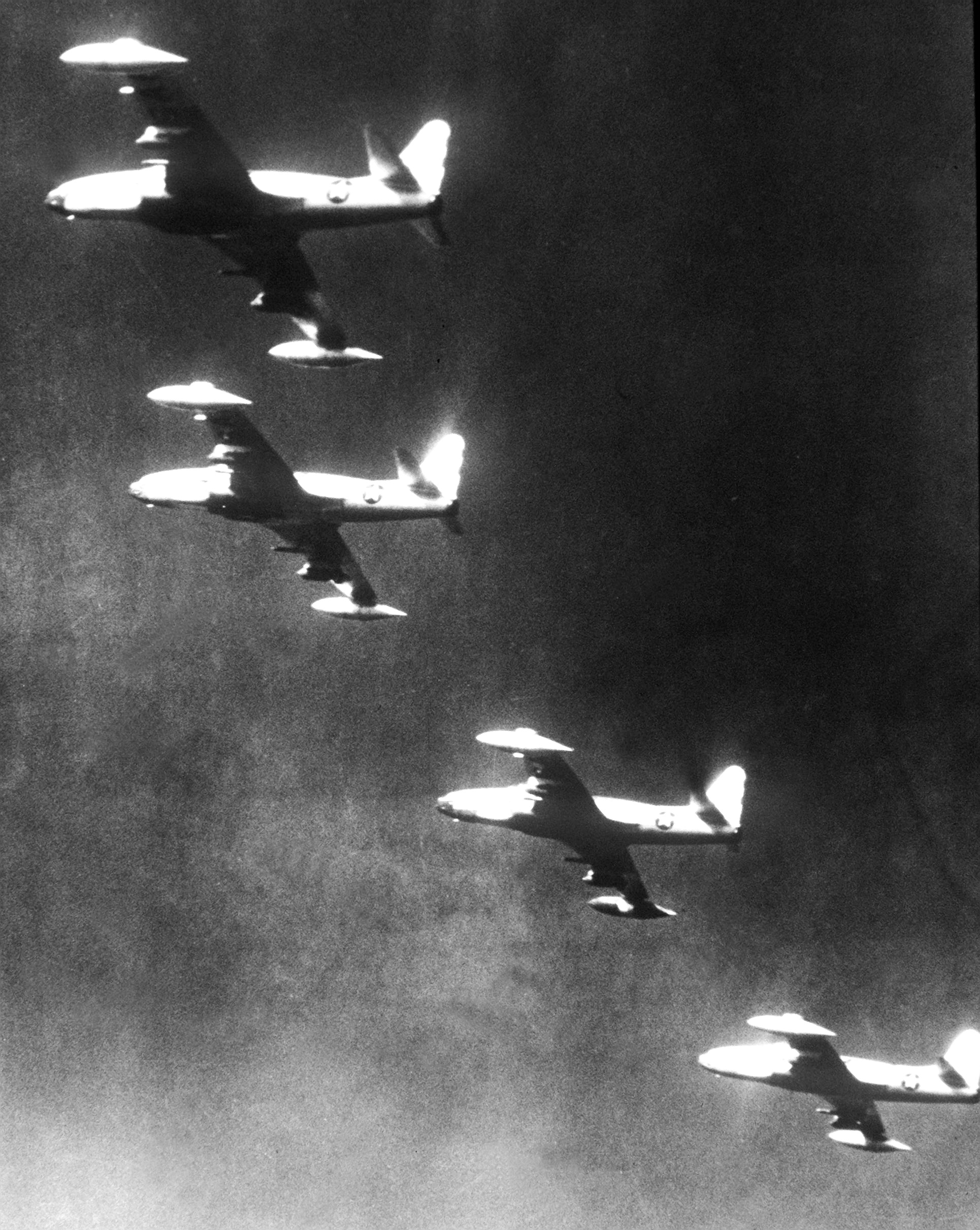 Four U.S. Air Force Lockheed F-80C Shooting Star fighters of the 8th Fighter Bomber Wing head towards a target area in Korea, on 1 September 1951.